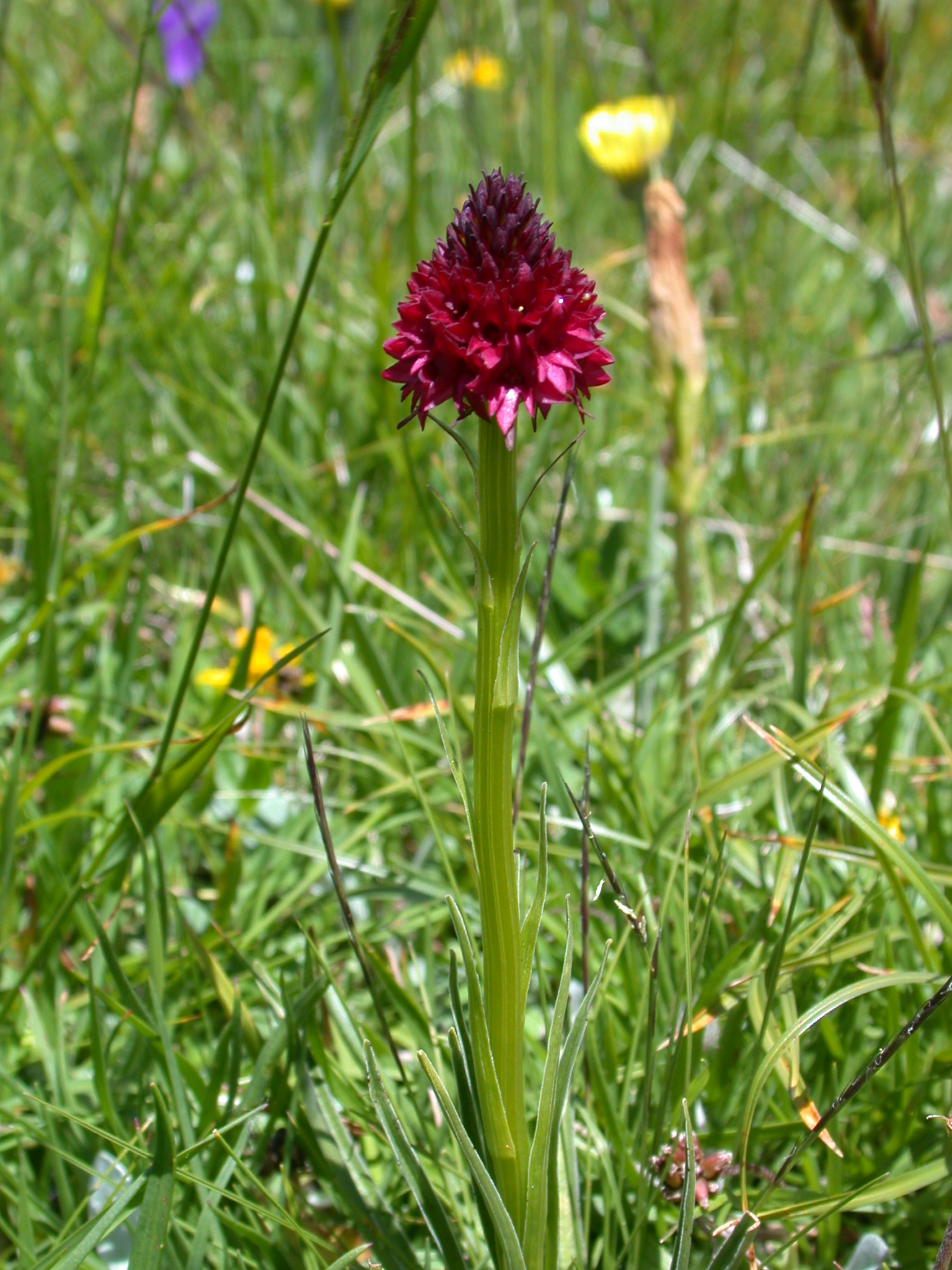 Nigritella nigra aggr. (Orchidaceae); Binntal, Canton of Valais, Switzerland